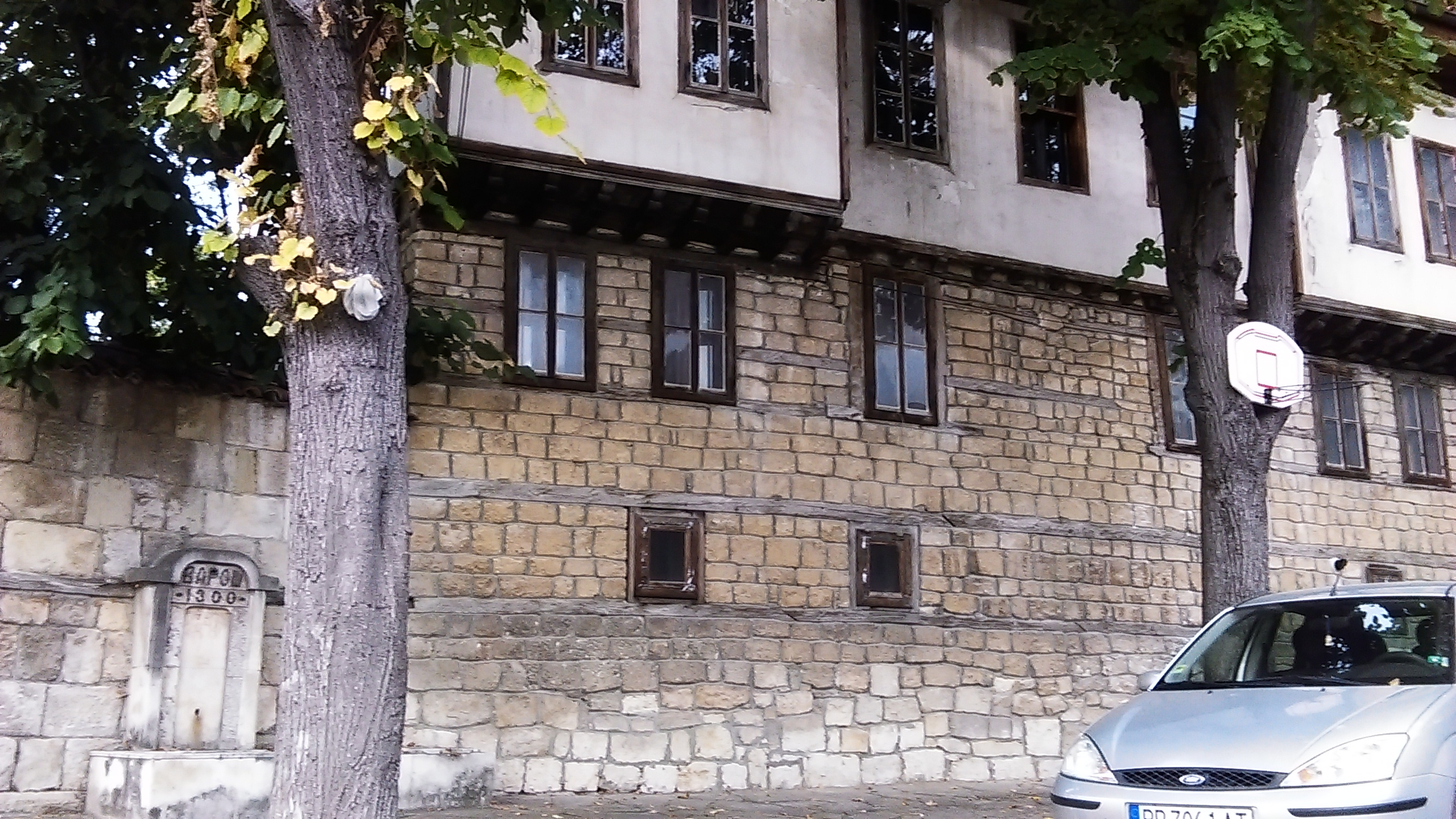 Възрожденският квартал Разград